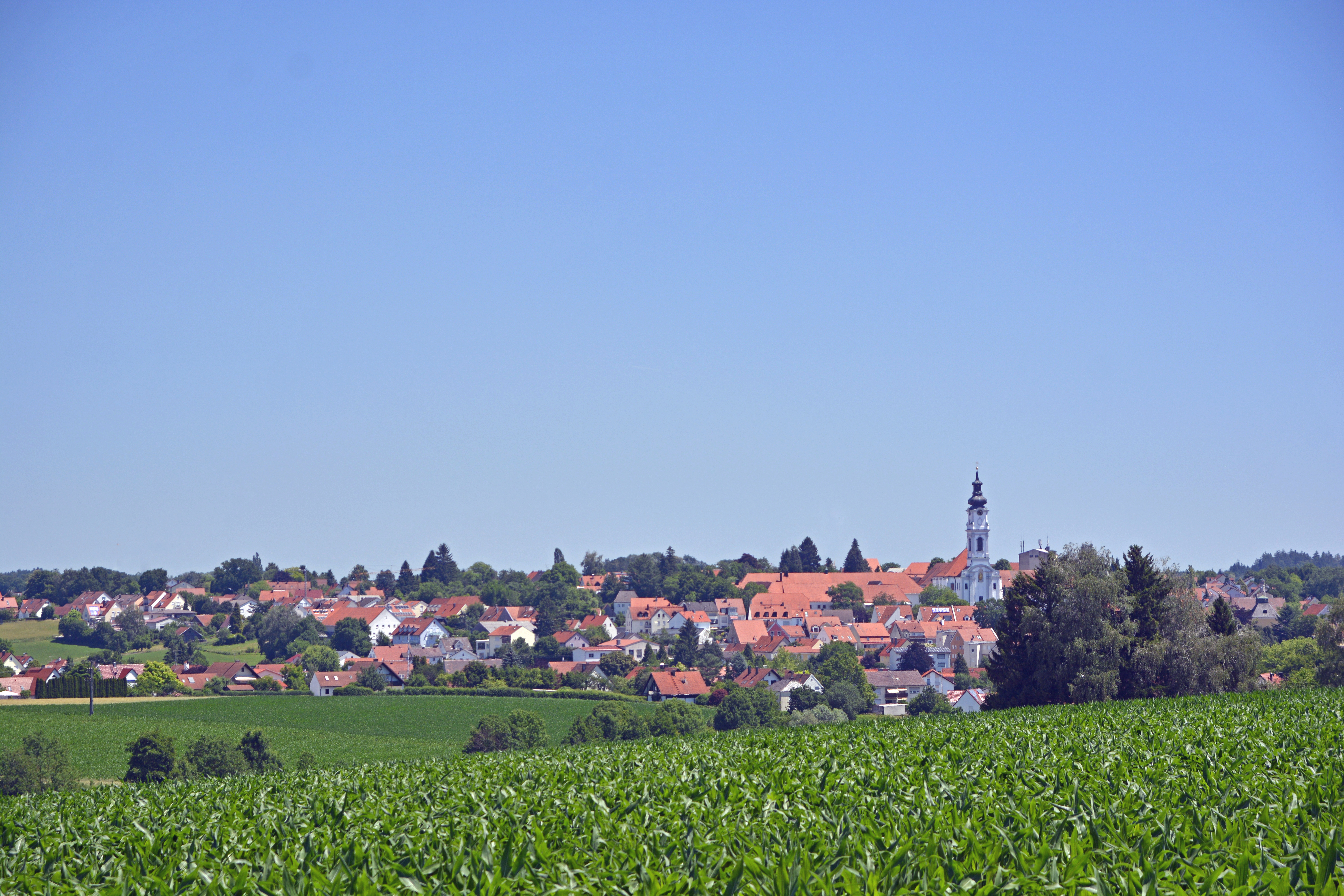 Altomünster - View from the West